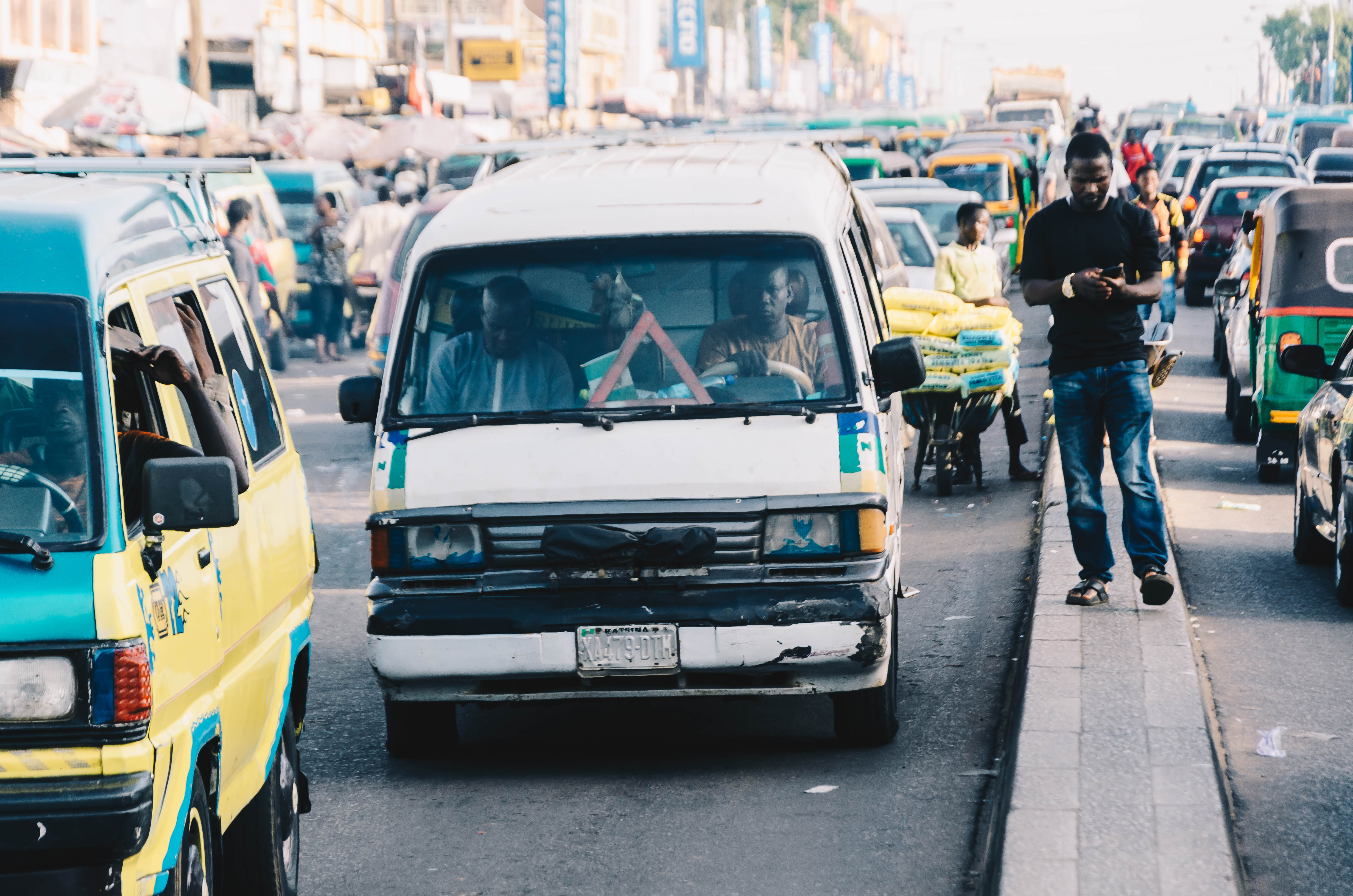 This is an image with the theme "Africa on the Move or Transport" from: Nigeria